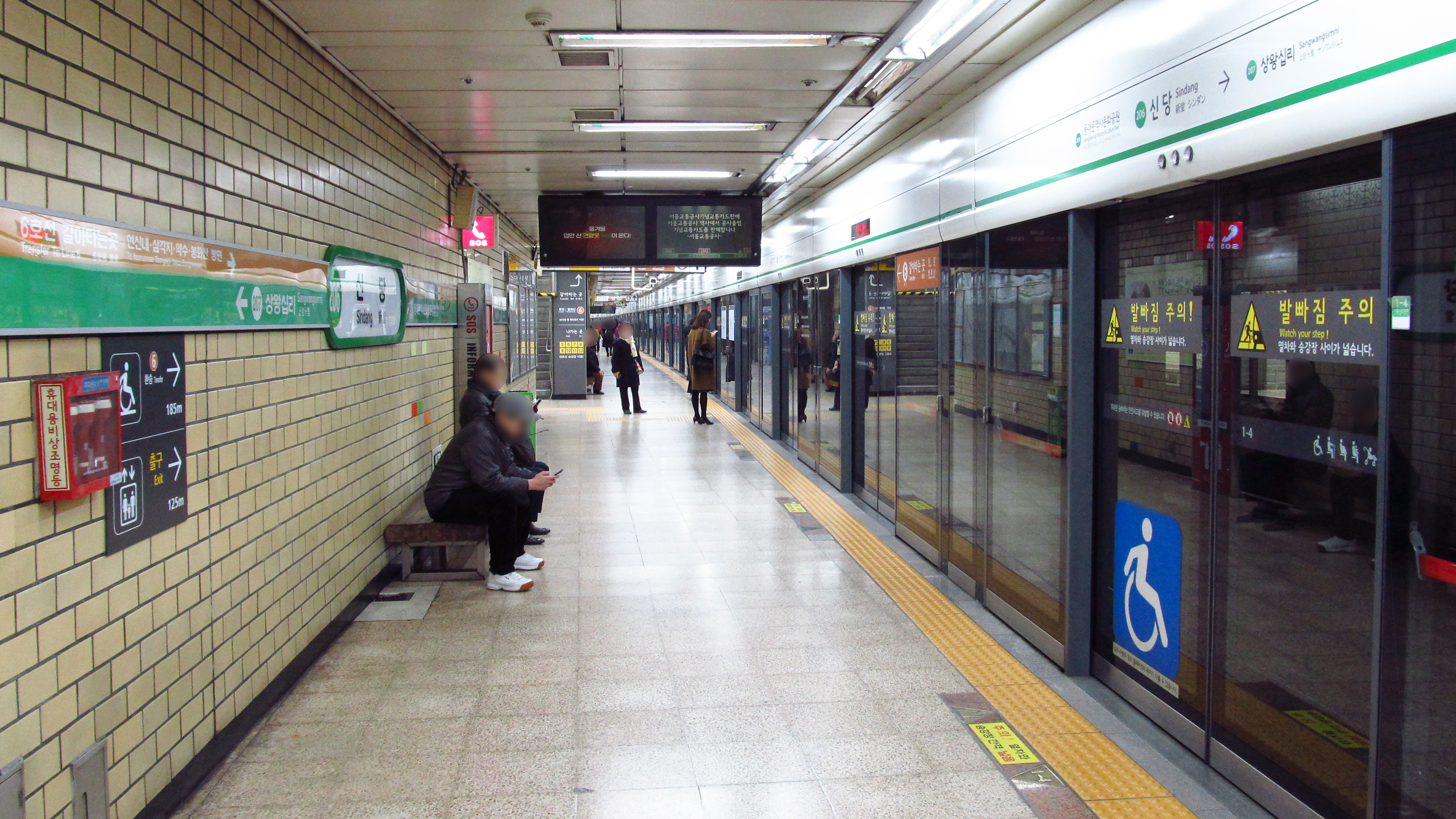 The platform at Sindang Station on Seoul Subway Line 2 in Jung-gu, Seoul, Republic of Korea(South Korea)